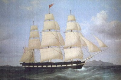 This painting by Duncan McFarlane, shows the ship "Brooklyn" off Skerries Reef, which is off the north coast of Anglesey, North Wales. The artist is a British "maritime" painter who died in 1865.